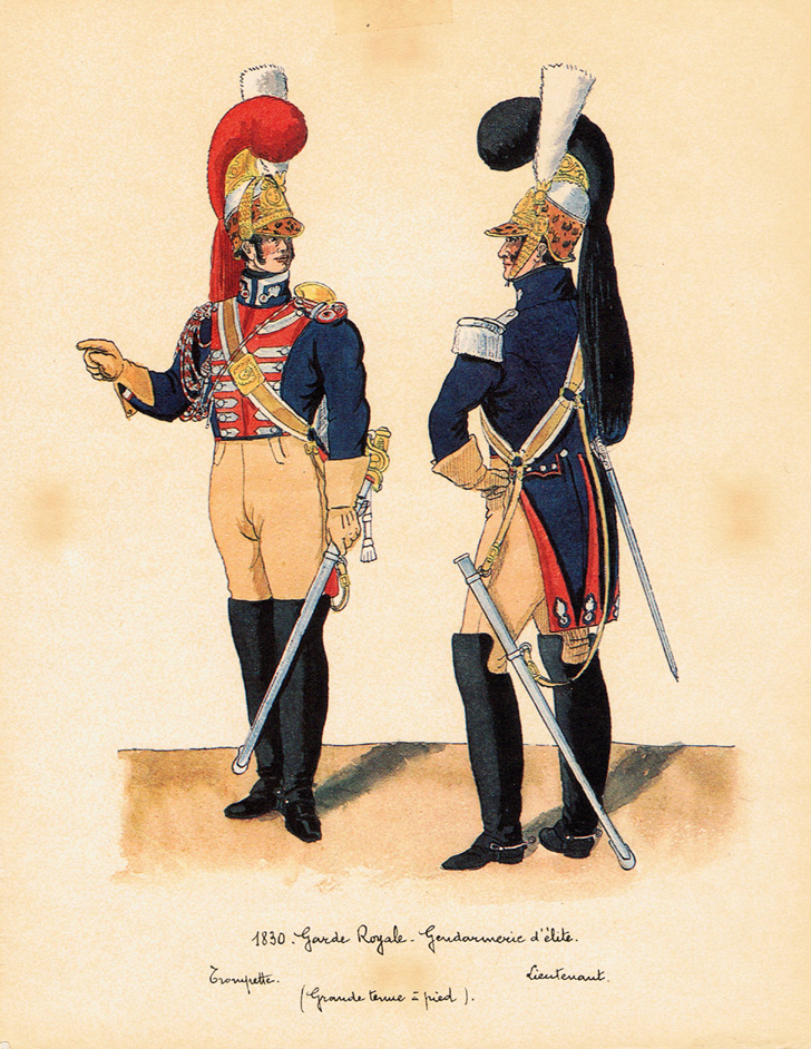 1830 - GARDE ROYALE - GENDARMERIE D'ELITE